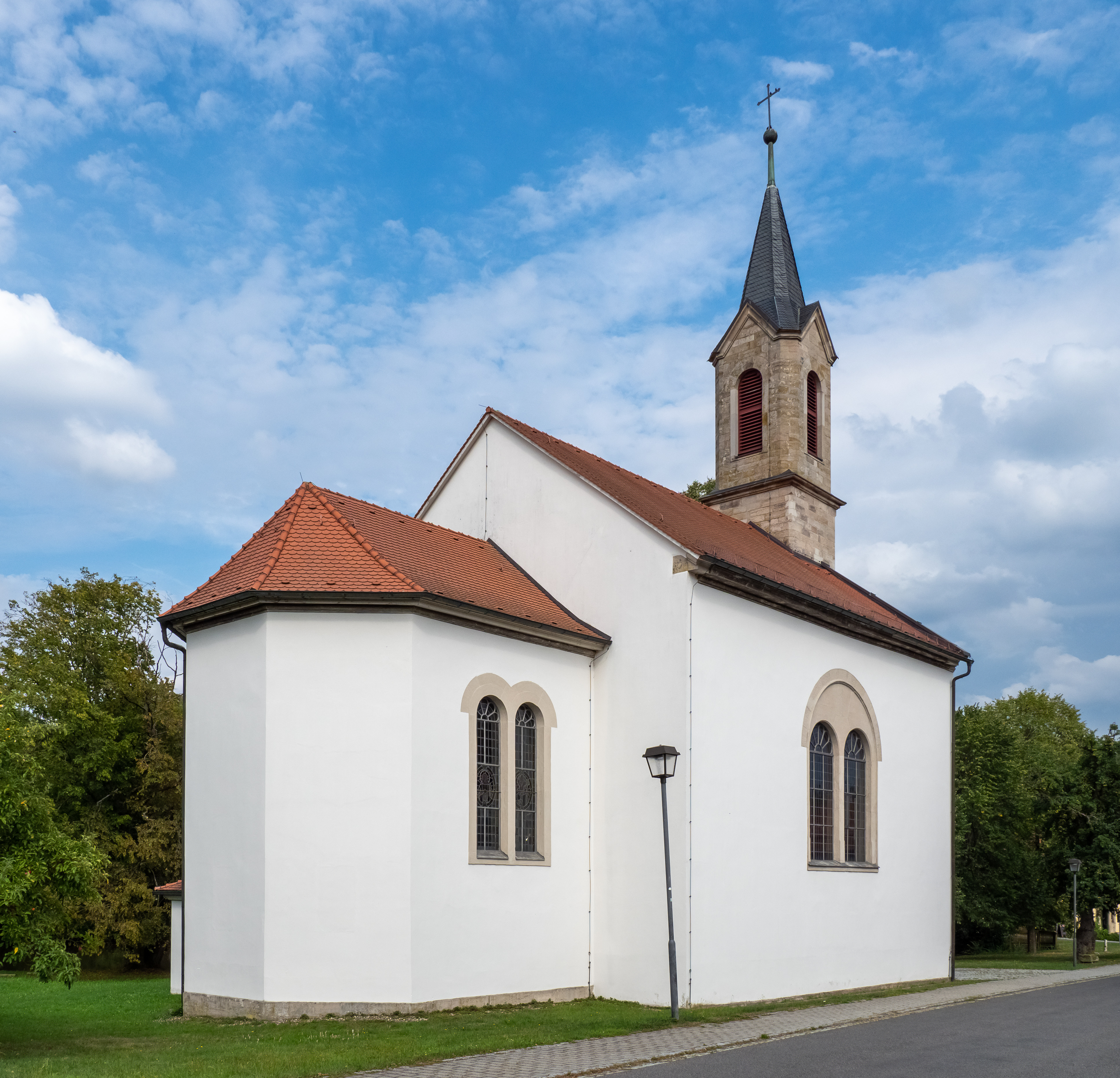 Catholic Church St Kilian, Kolonat and Totnan in Fabrikschleichach